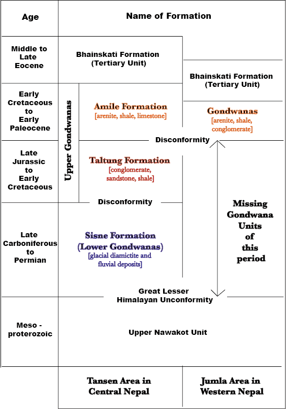 The simple stratigraphic column focuses on the Lower and Upper Gondwanas in Tansen and Jumla areas mainly during Paleozoic to Mesozoic times.